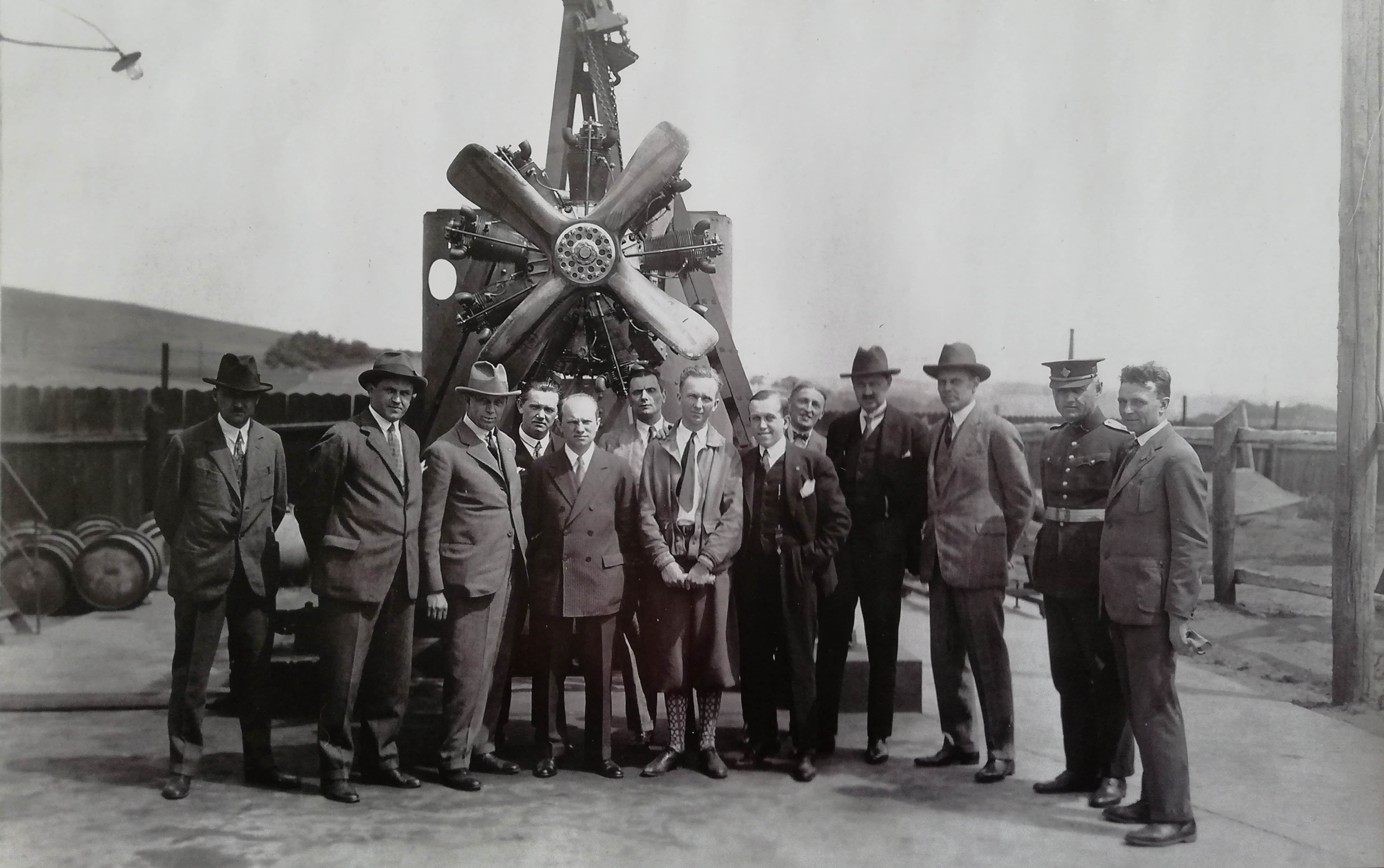 Waltr's factory's first testing area dedicated to test the aircraft-engines, view towards Cibulka, year 1932. The eighth gentleman from the left (or the sixth gentleman from the right) with a white handkerchief in his jacket lapel is Ing. Antonín (Teny) Kumpera (* 1901 - 1990) - mechanical engineer, constructor, aviator and car driver, technician, industrialist, chief executive, later chief executive officer (CEO) and co-owner of the joint-stock company „Walter, car and aircraft engine factory“, Prague XVII - Jinonice.